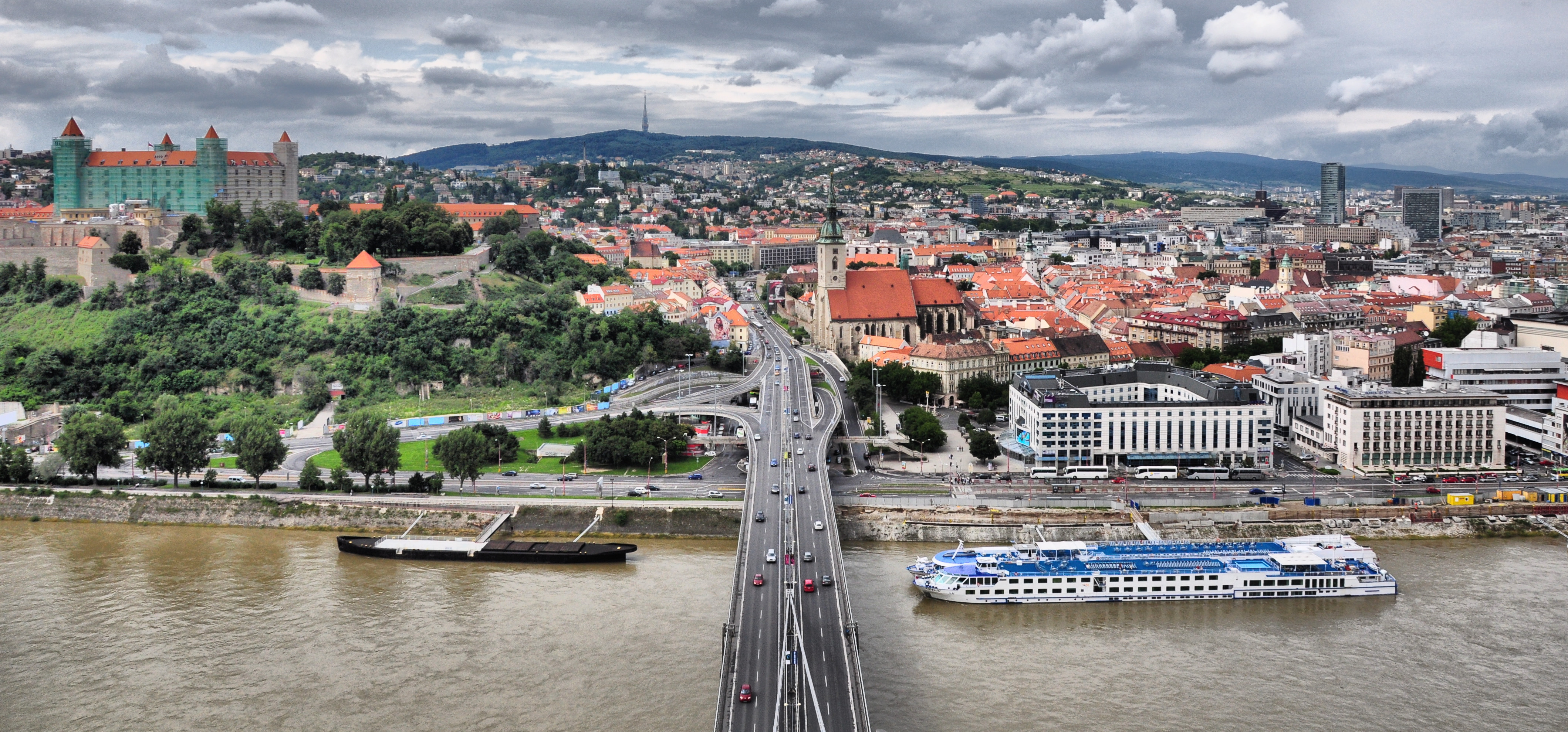 A view of the Old Town in Bratislava from the UFO tower on the bridge.